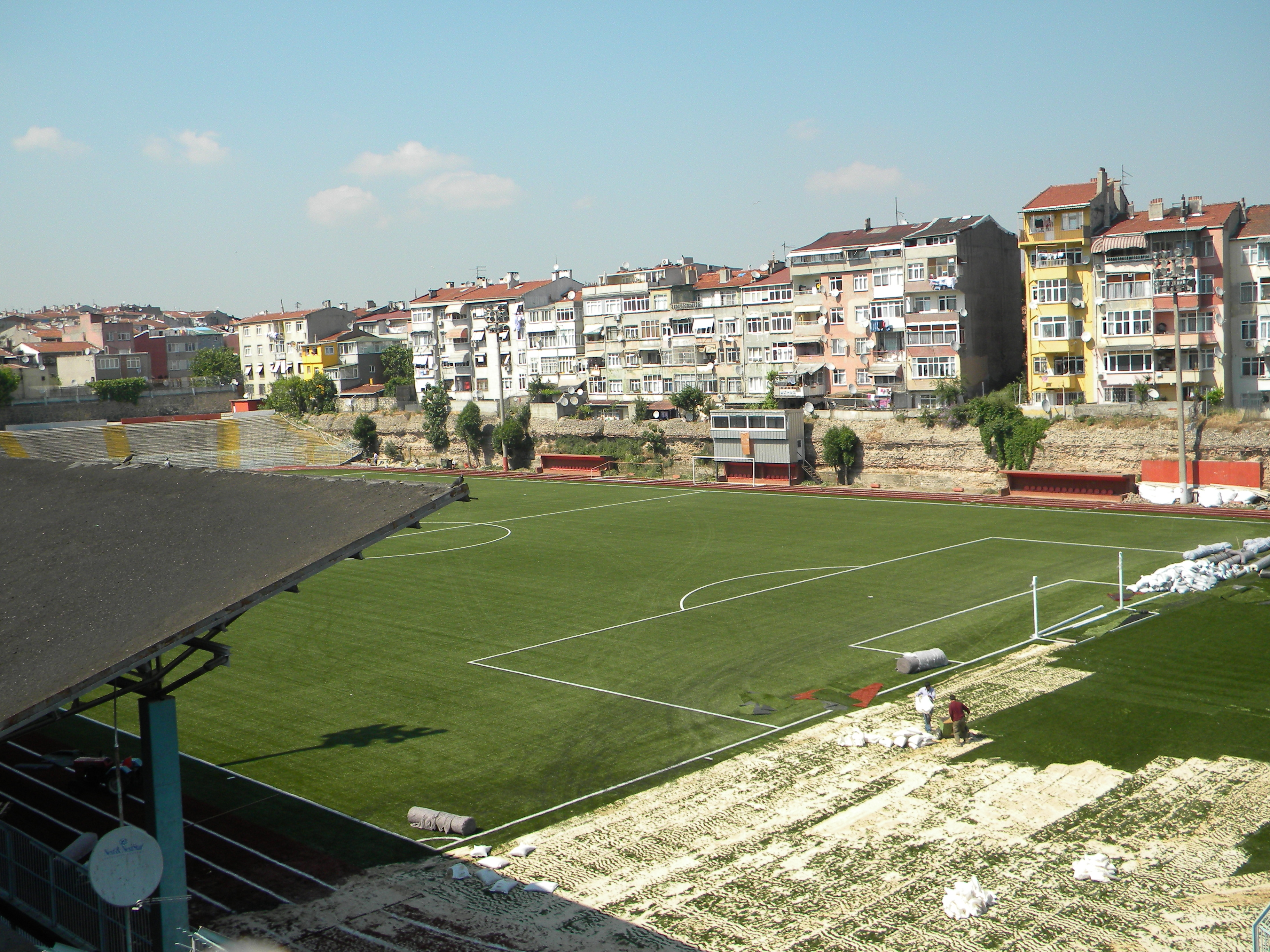 Vefa Stadium, Istanbul; stadium with artificial grass, in use by Vefa SK and Fatih Karagümrük.SK